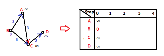 Bước 0